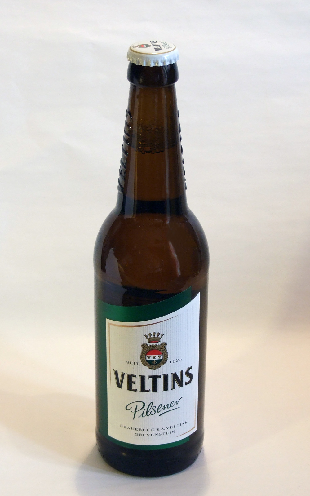 Bottle of Veltins (German beer)